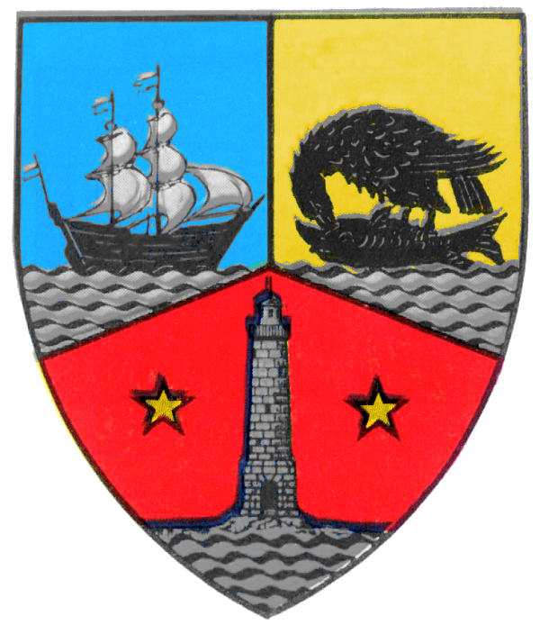 Interwar coat of arms of Constanța County, Kingdom of Romania.